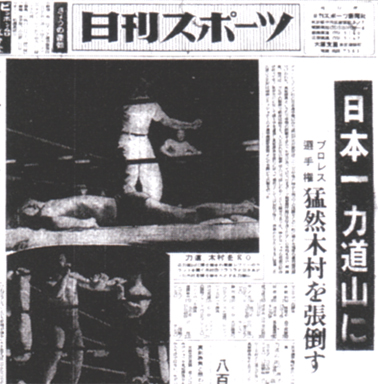 newspaper/Masahiko Kimura vs. Rikidozan